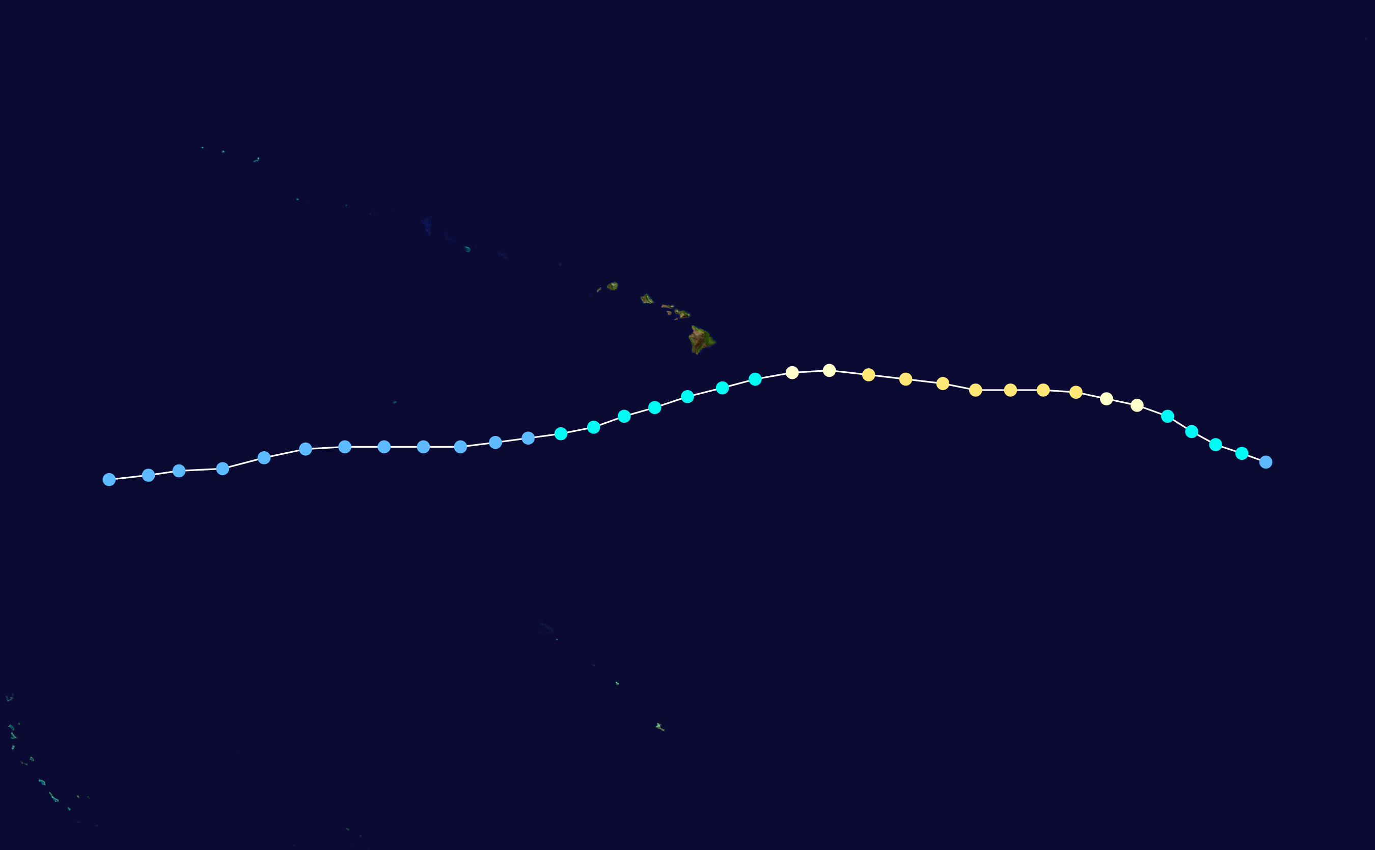 Hurricane Jimena (2003) track. Uses the color scheme from the Saffir-Simpson Hurricane Scale.